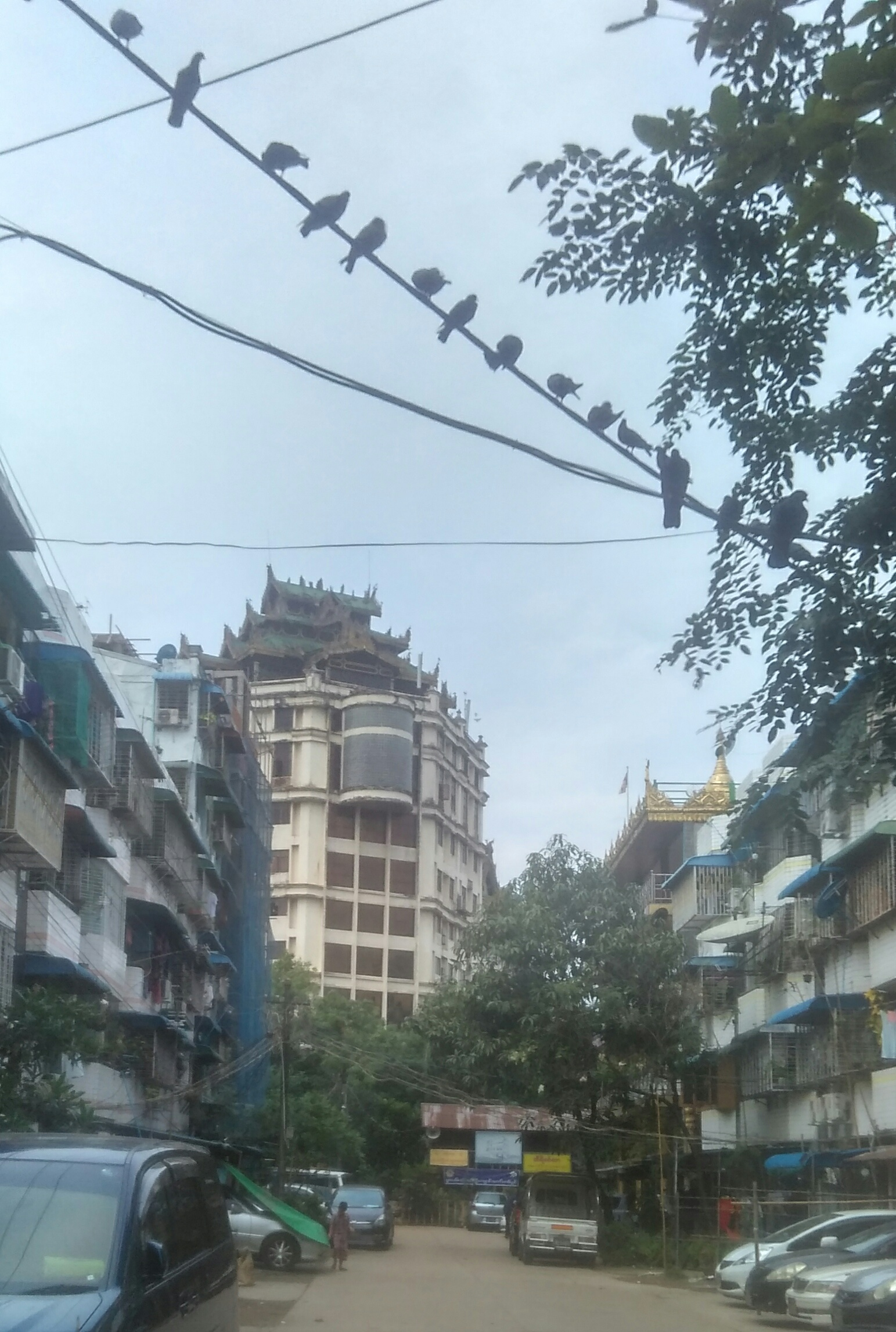 Back View of Mahāsantisukha Buddha Sasana Center မြန်မာဘာသာ: မဟာသန္တိသုခကျောင်းတော်၏ ကျောဘက်မြင်ကွင်း။ မေတ္တာညွန့်ရပ်ကွက်၊ သီရီလမ်းမှ ရိုက်ယူထားသည်။